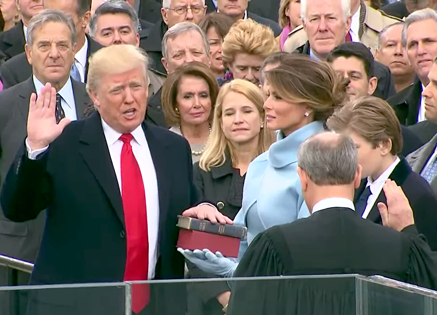 With his family by his side, Donald Trump is sworn in as the 45th president of the United States by Chief Justice of the United States John G. Roberts, Jr. in Washington, D.C., Jan. 20, 2017.